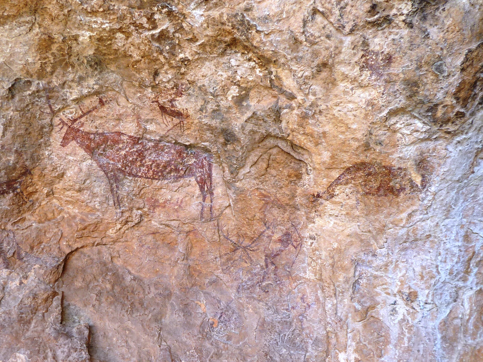 Levantine Cave Art, cervids and human figures, Cañaica del Calar II. Moratalla. Murcia. Spain